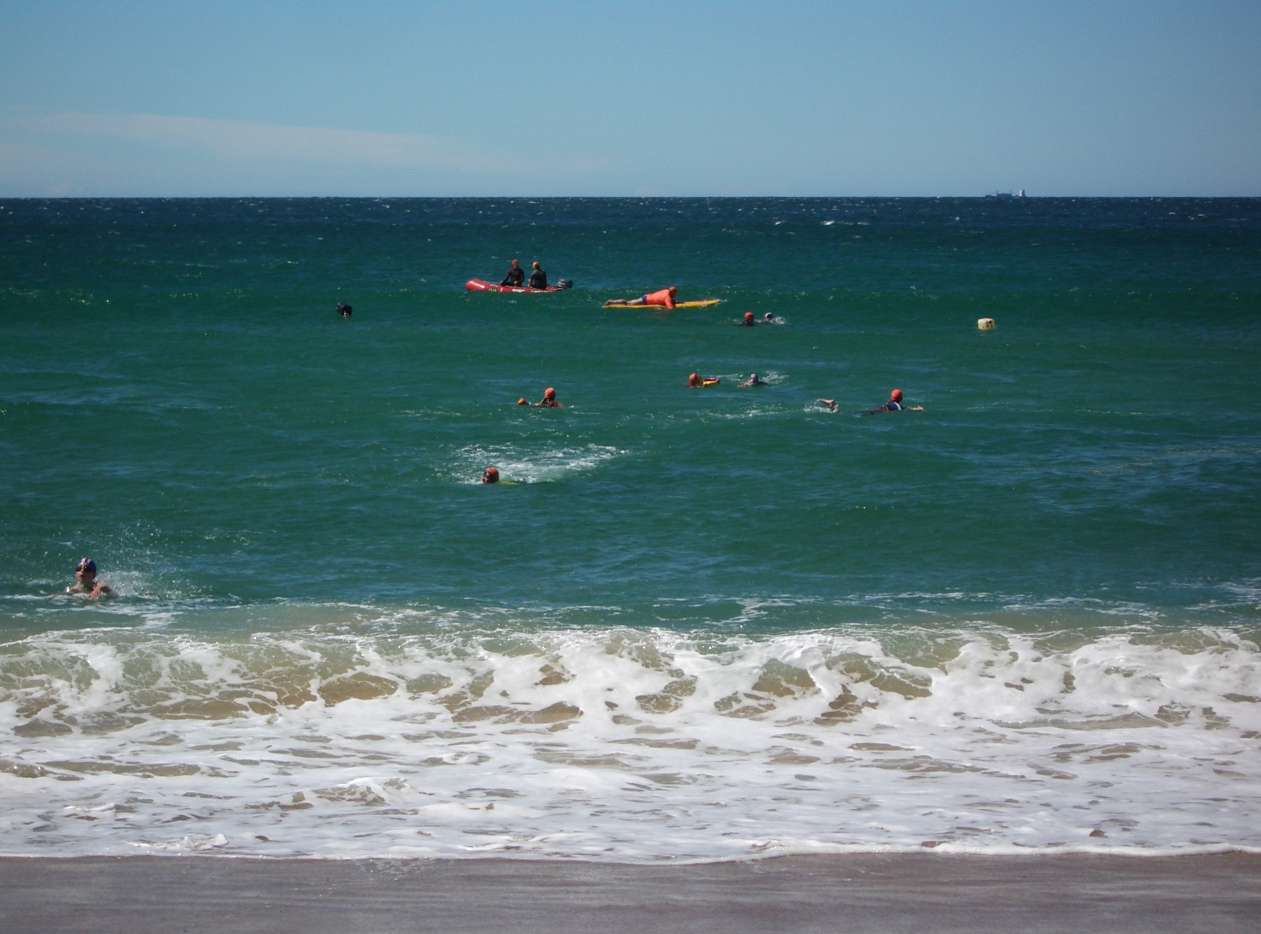 Boards Race at Sydney Water Surf Carnival in the Illawarra region. Author: Klaus-Dieter Liss Date: 12.11.2005